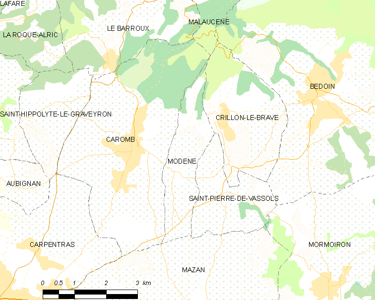 Map of French municipality Modène